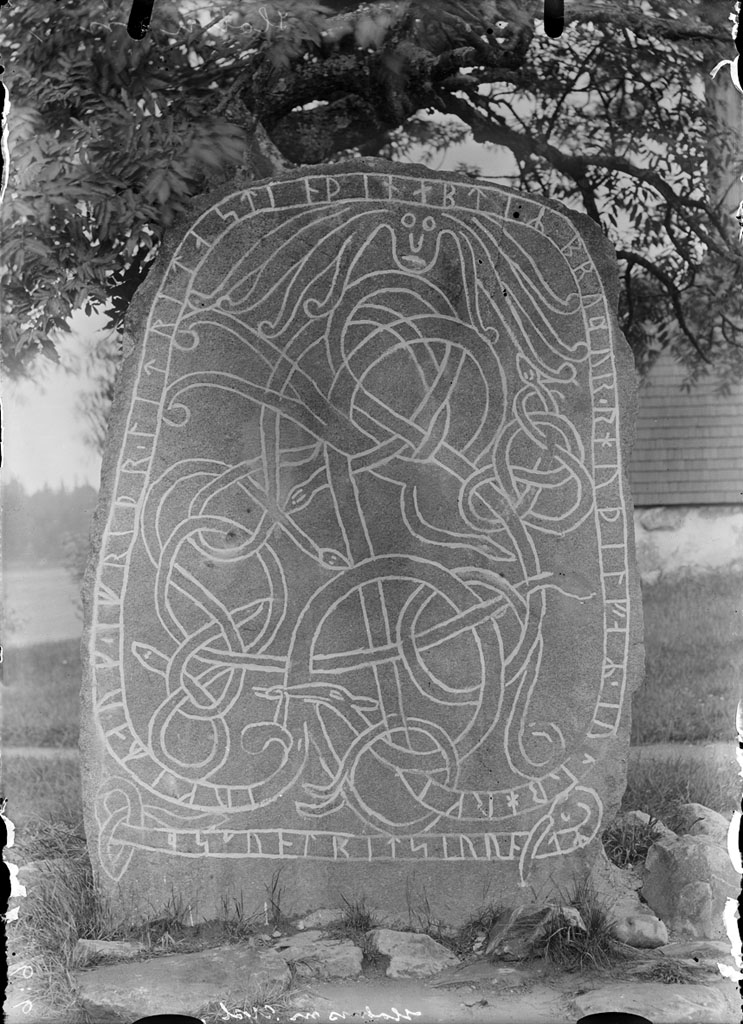 Rune stone (U 824) at Holm Church. The rune stone has been used as a stair stone in the cemetary gate. The inscription says: "Joger and Åfrid had this stone raised in memory of the brother of Rodälv in Örberg (?). Åsmund carved the runes".